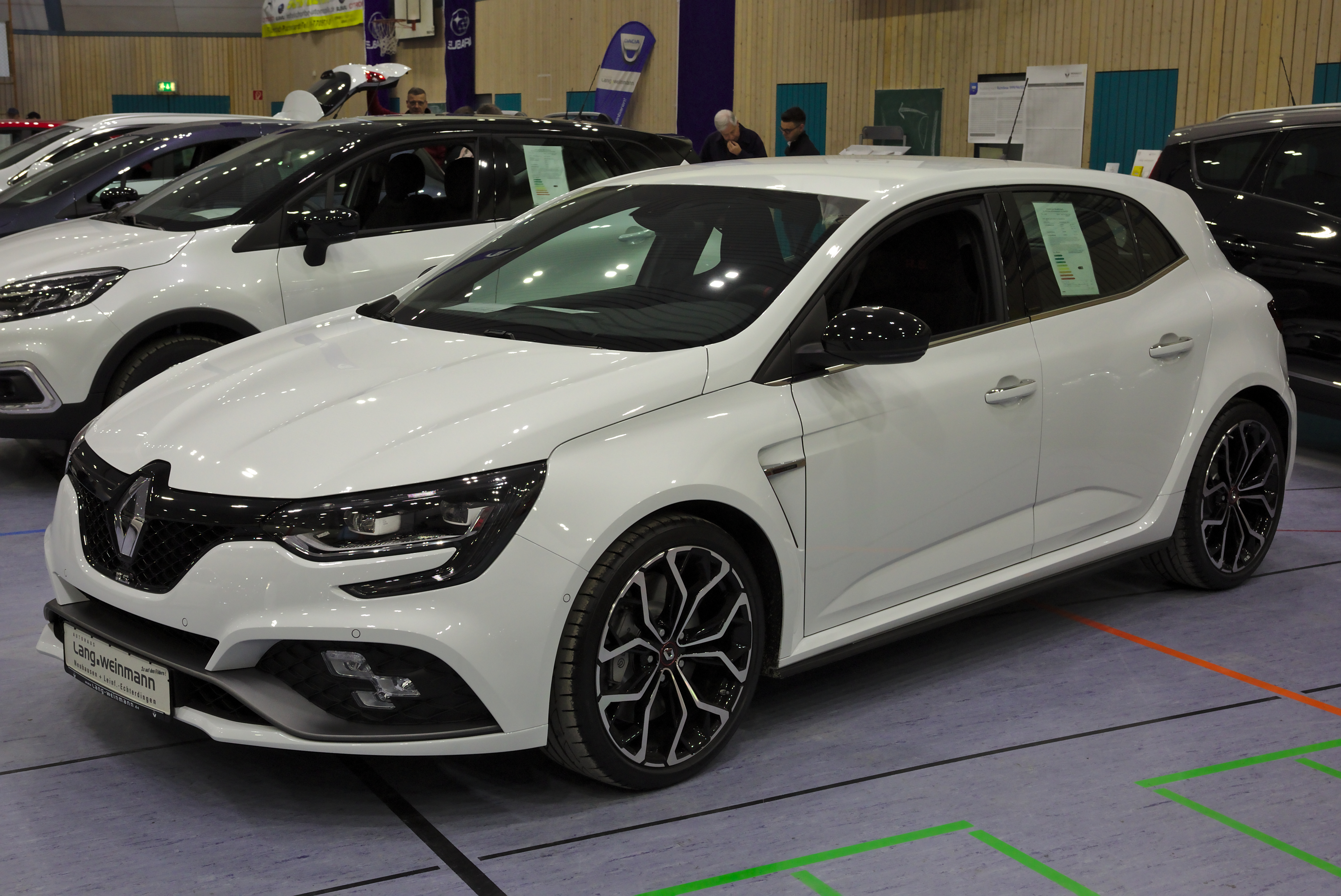 Renault Megane RS Trophy at Autosalon Filderstadt 2019